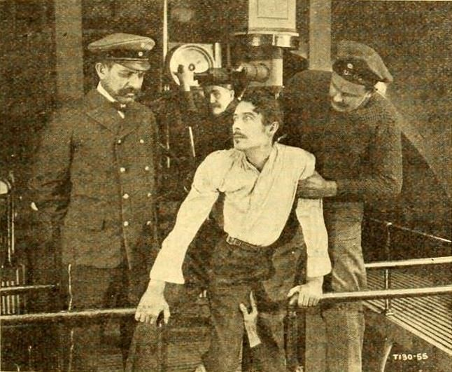 Still from the American film The False Faces (1919) with Henry B. Walthall onboard the submarine, on page 901 of the February 15, 1919 Moving Picture World.